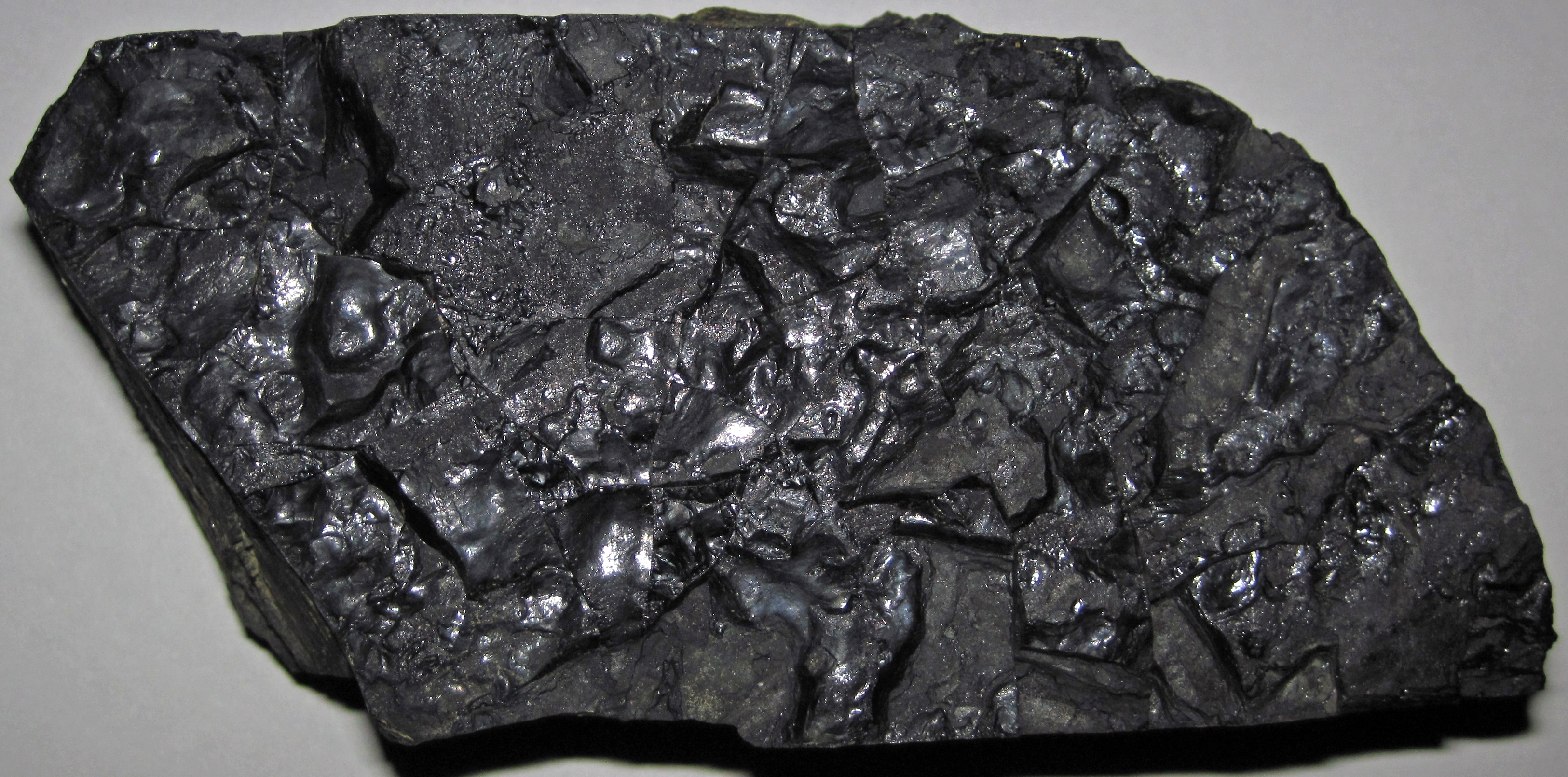 Bituminous coal found by Powhatan Point, Ohio, USA.